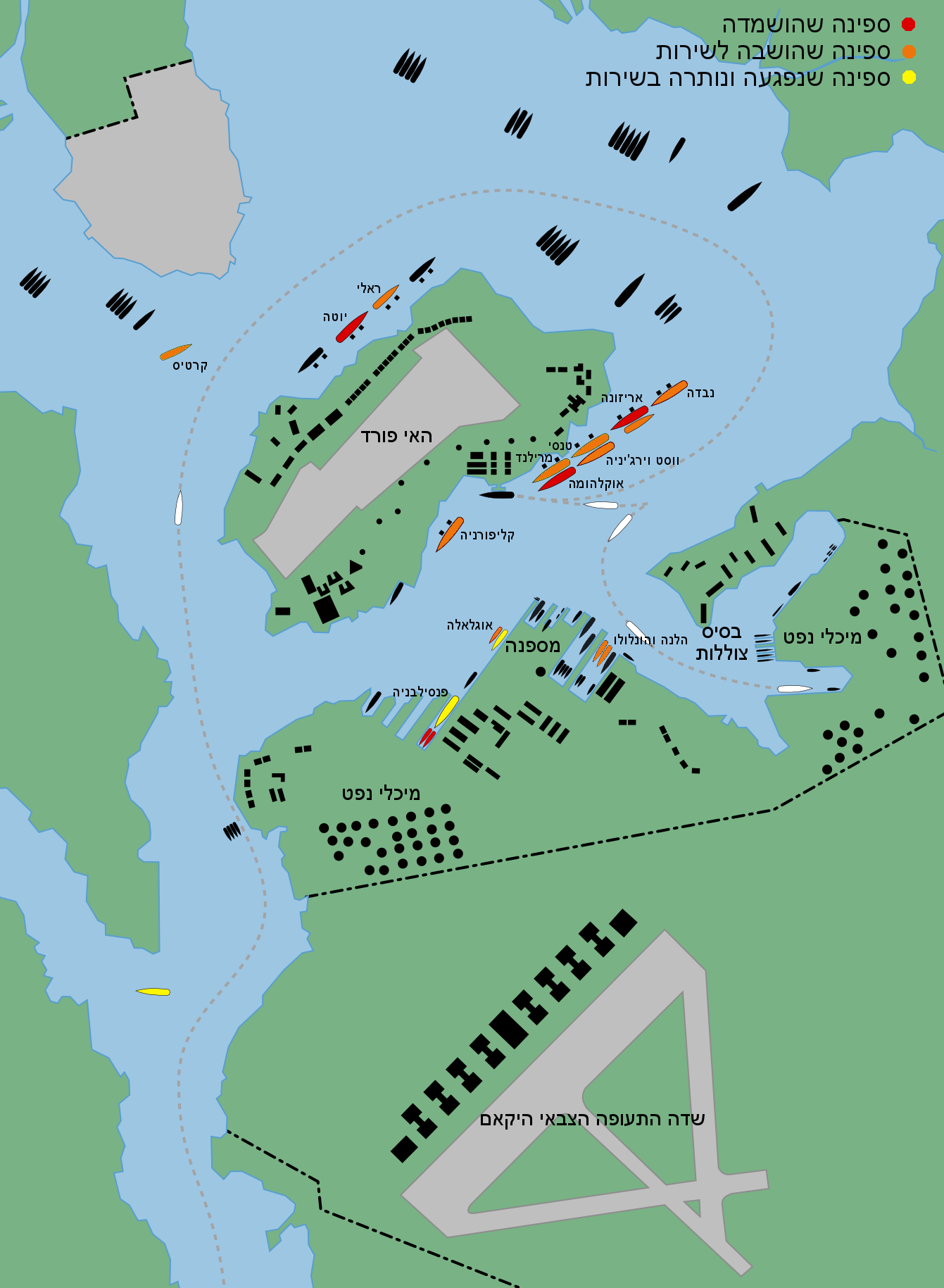 pearl harbour attack